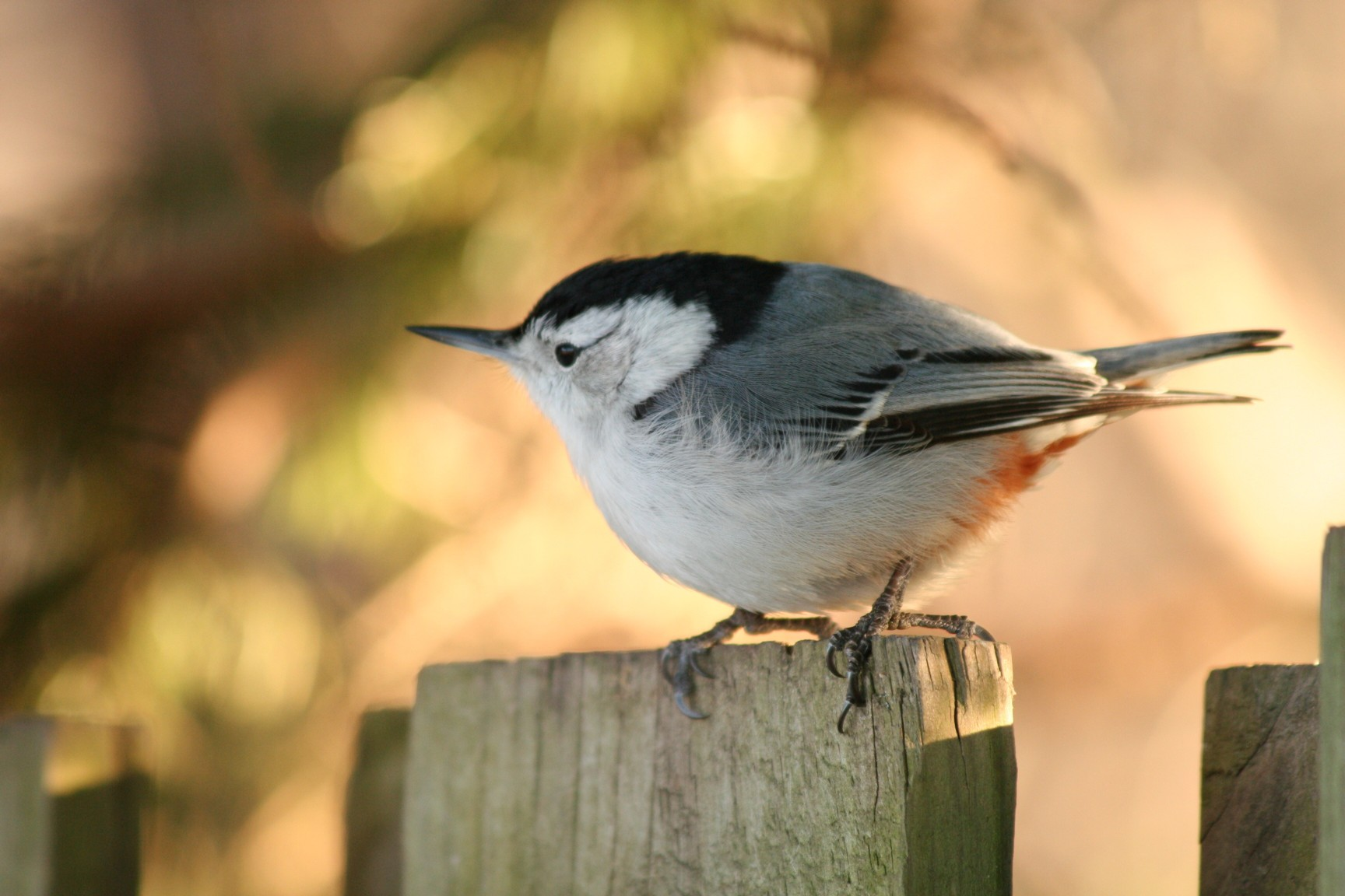 J Malik, 02-2007, Great Swamp Wildflife Refuge, NJ